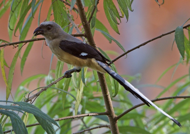 Bornean Treepie Dendrocitta cinerascens 6th. June 2009 Kinabalu Park, Sabah, East Malaysia Distribution: 690V7260